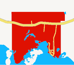 Expanded detail map of the G.W. Holland Plantation plantation grounds, Woodlawn, (Leon County, FL.)